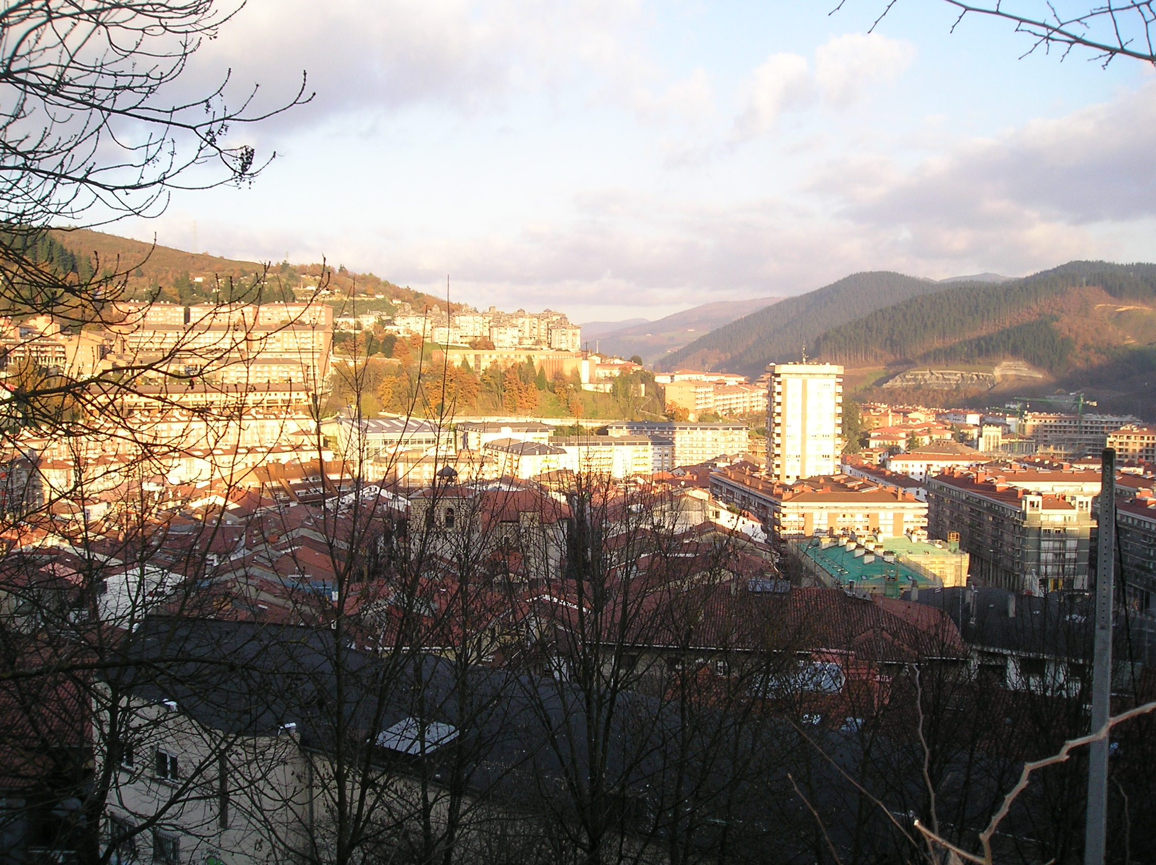 Arrasate city center